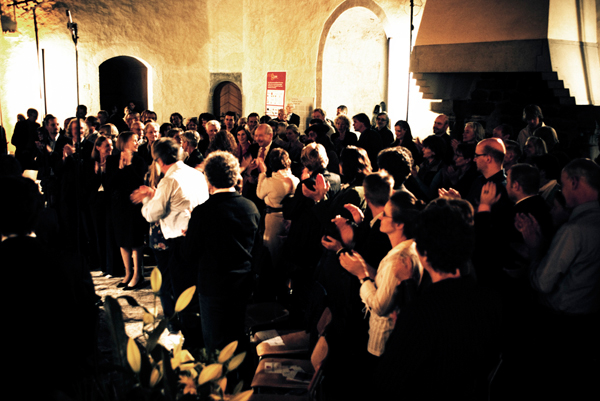 Audience response at GAIA Chamber Music Festival